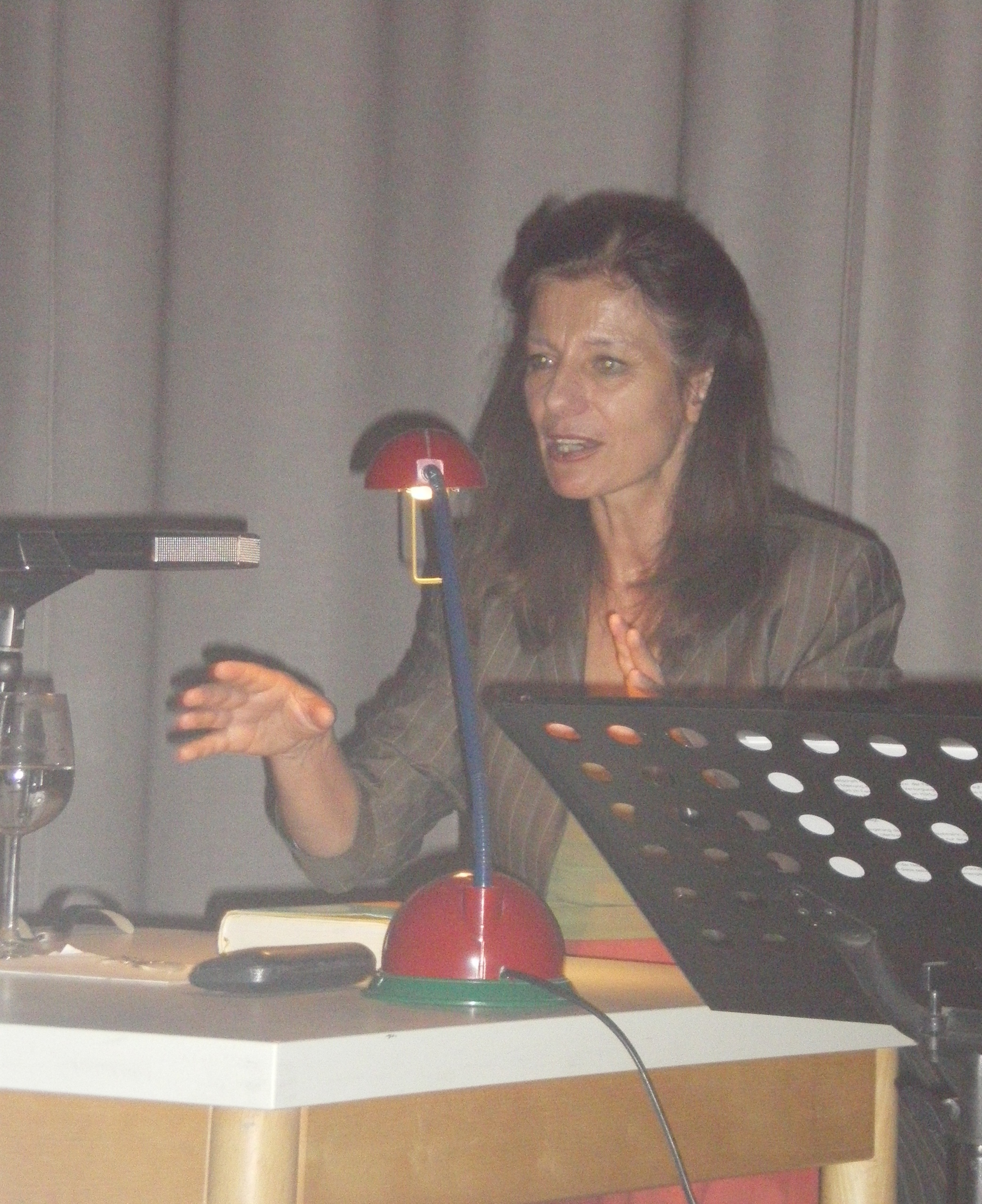 Author Ursula Krechel